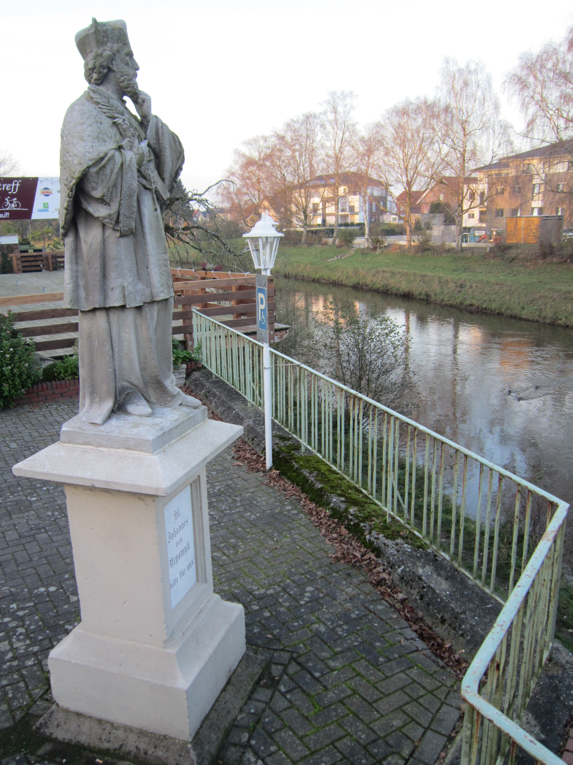 River Hase in Herzlake (Emsland) with a statue of St. Nepomuk